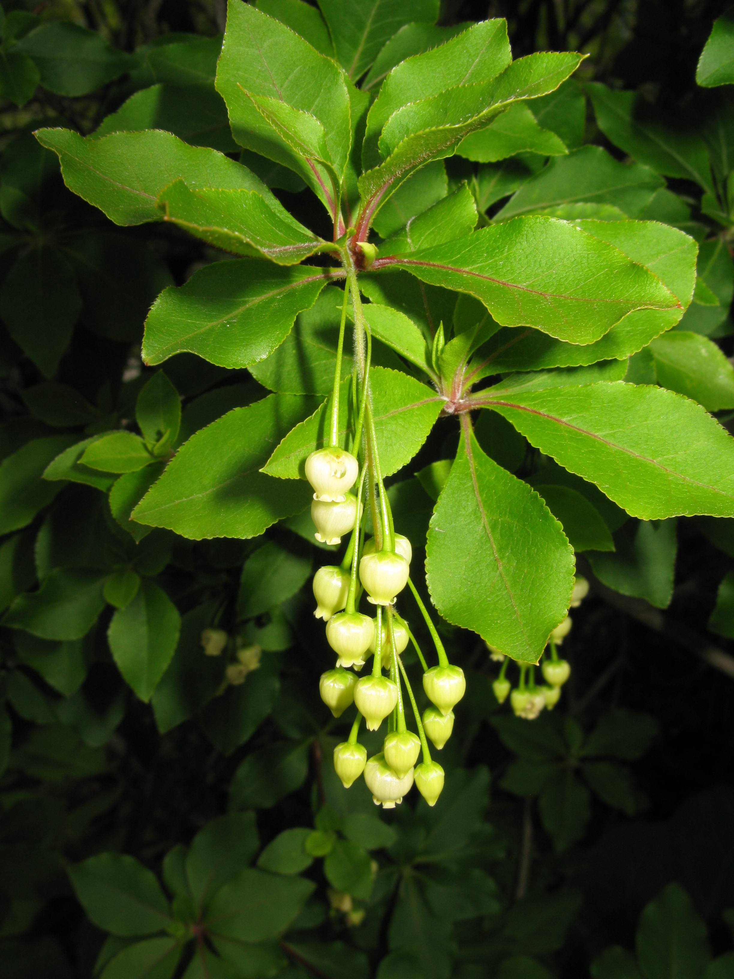 Enkianthus subsessilis, Tochigi pref., Japan